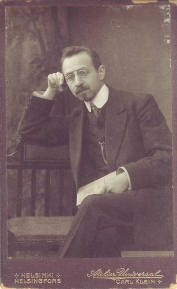 Israel Schur, (died 1949) historian, orientalist, photographed by Carl Klein (date of death unknown)